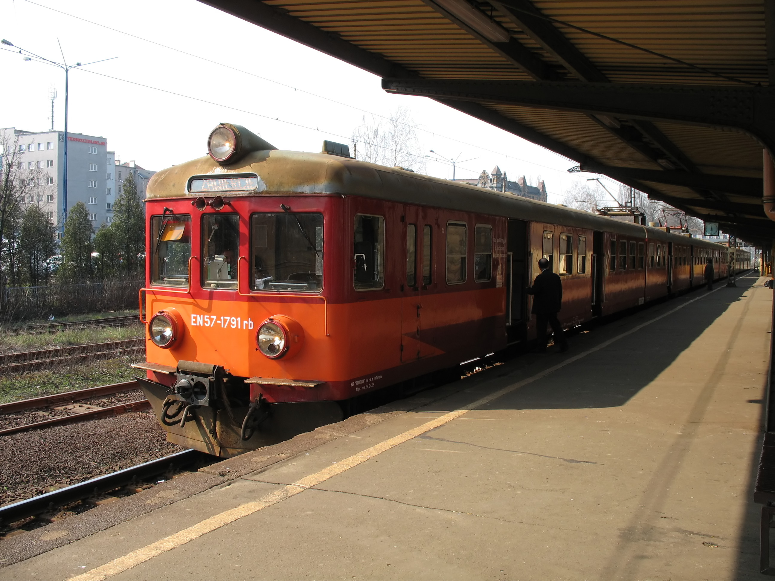 Polish EN57-1791 electric multiple unit in Zabrze